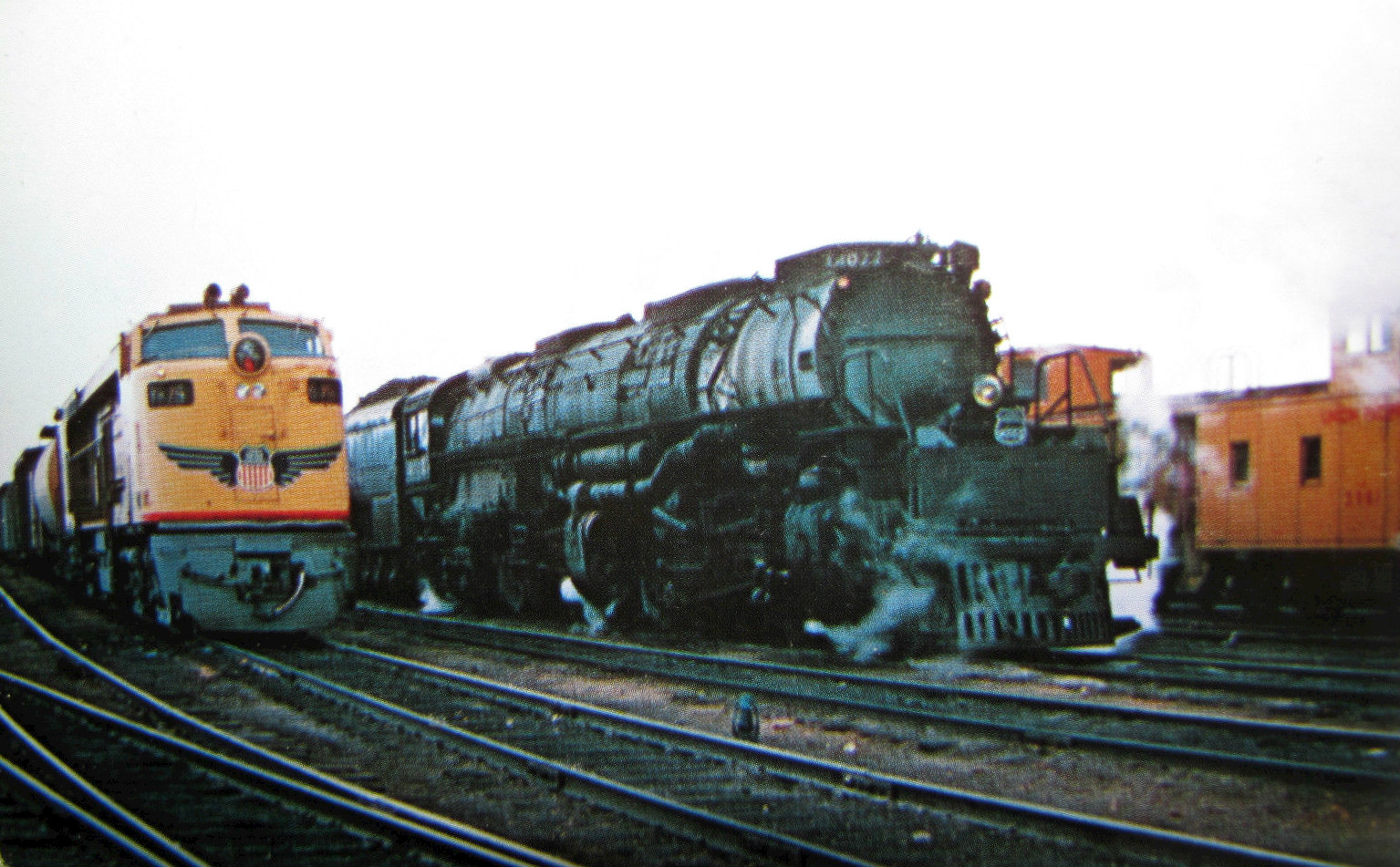 Postcard photo of Union Pacific locomotives at Cheynne, Wyoming. At left is a second-generation GTEL, number 75. To the right is Big Boy number 4022. The photo was taken in November, 1956.